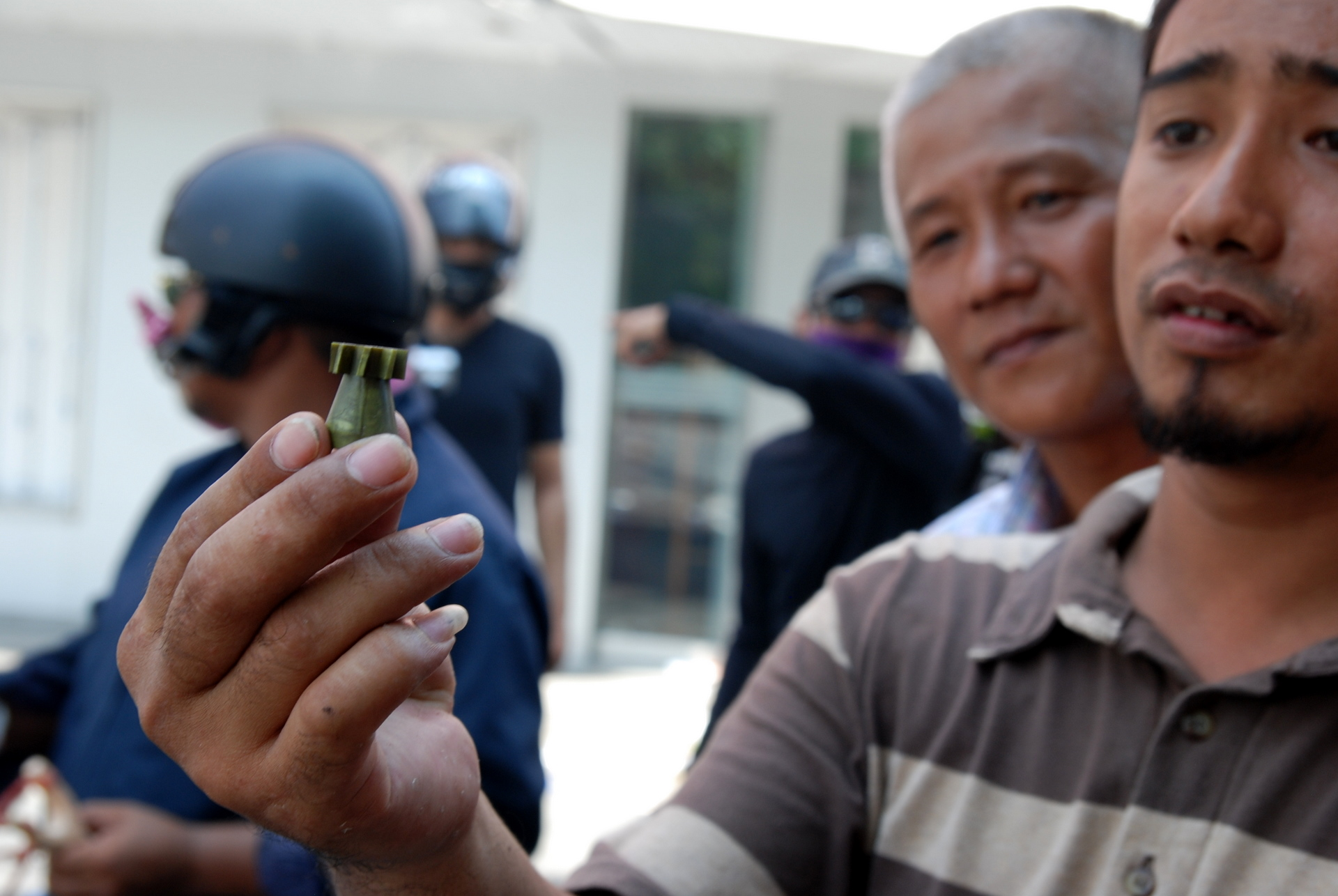 A rubber bullet fired by security troops landed at our feet.